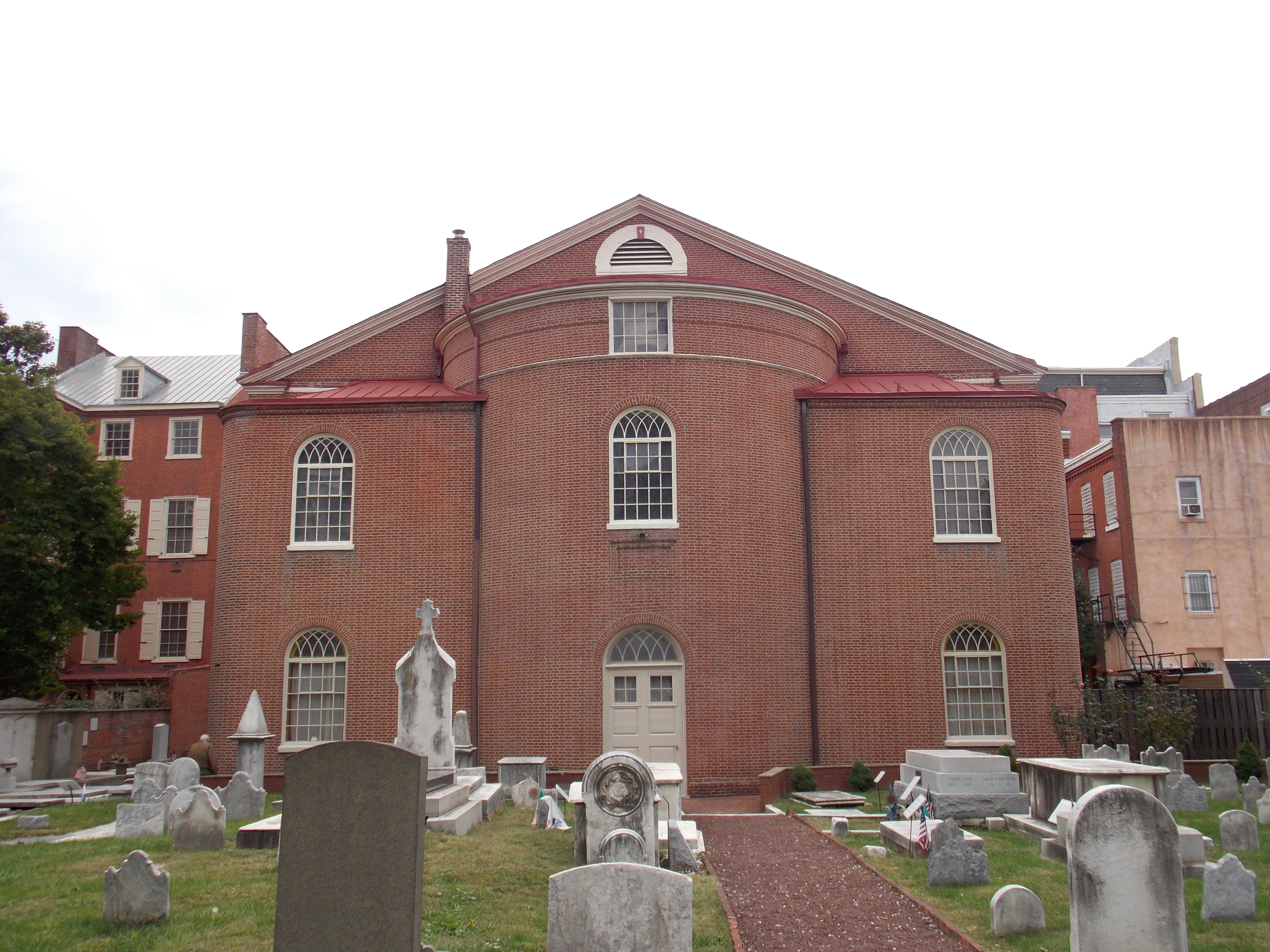 Old St. Mary's Catholic Church in the Society Hill neighborhood in Philadelphia, Pennsylvania.